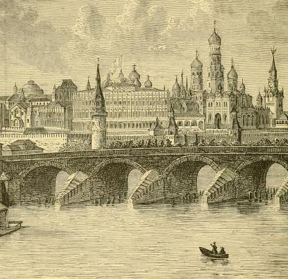 Nineteenth century drawing of the Kremlin, Moscow